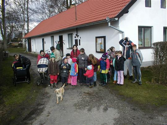 photo of village Zahorcice, Czech Republic, Prachens